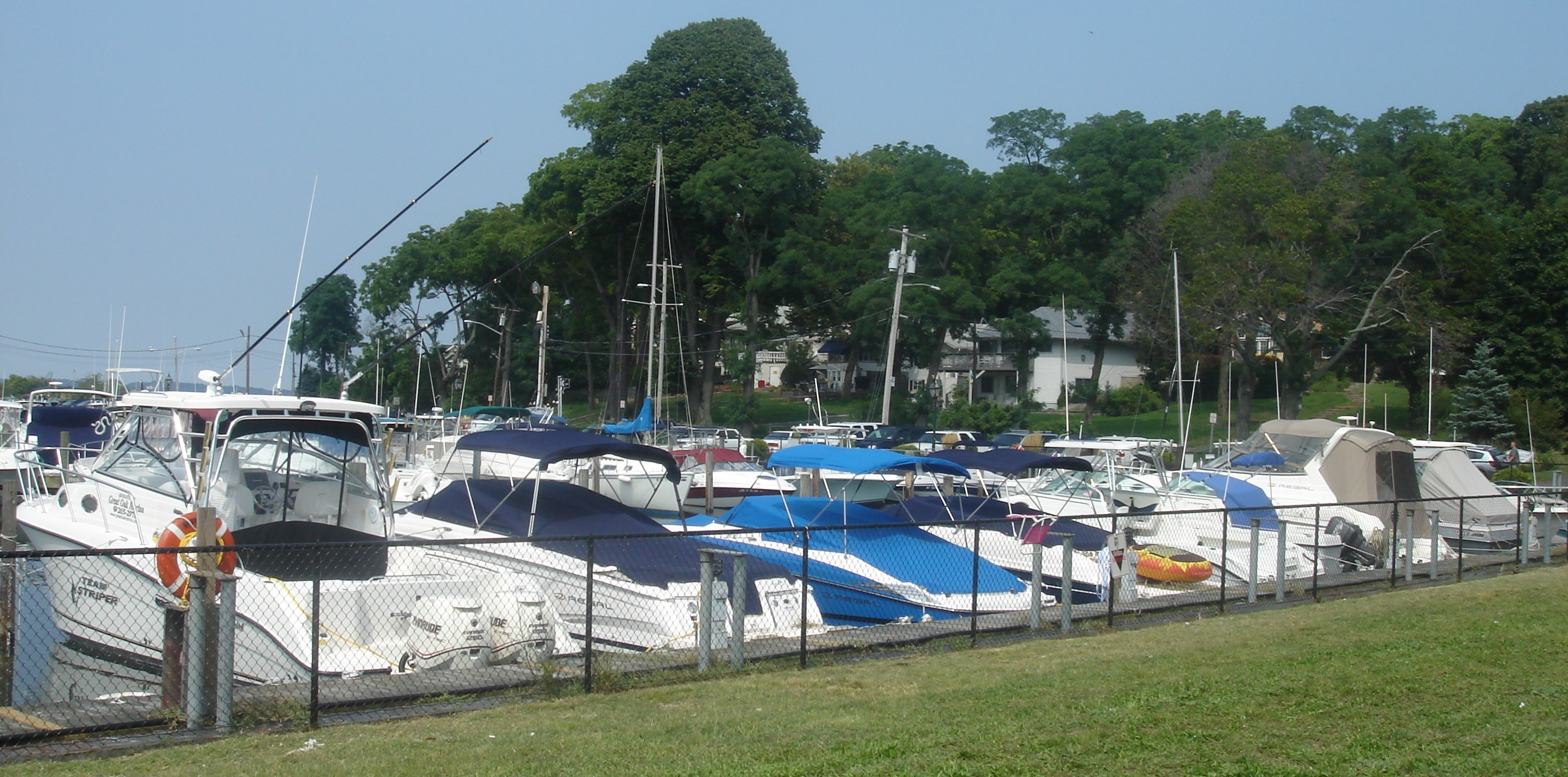 Marina in Stony Brook, Long Island.